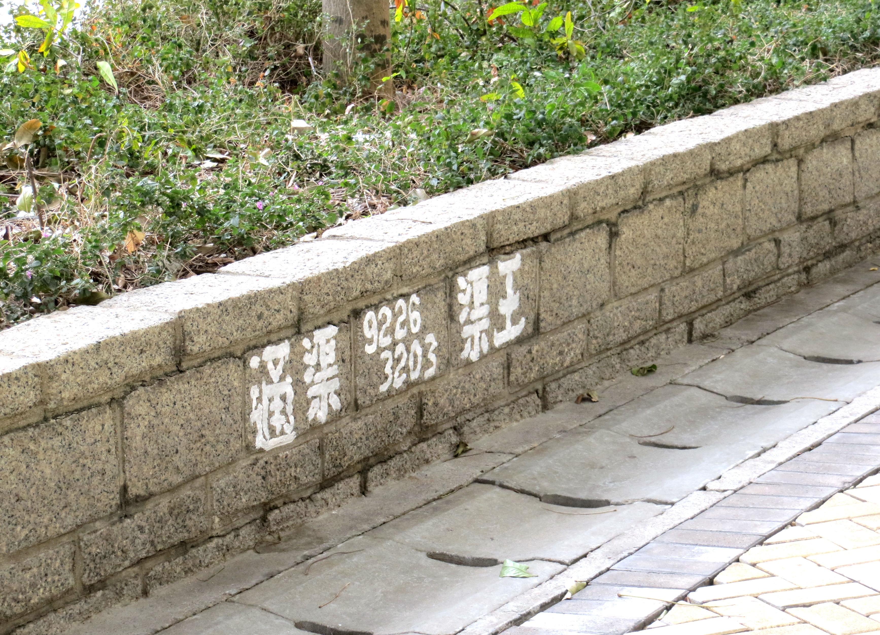 A hand-scrawled advertisement of the Plumber King on a granite flower bed, Man Tung Road, Tung Chung, Lantau Island, Hong Kong.